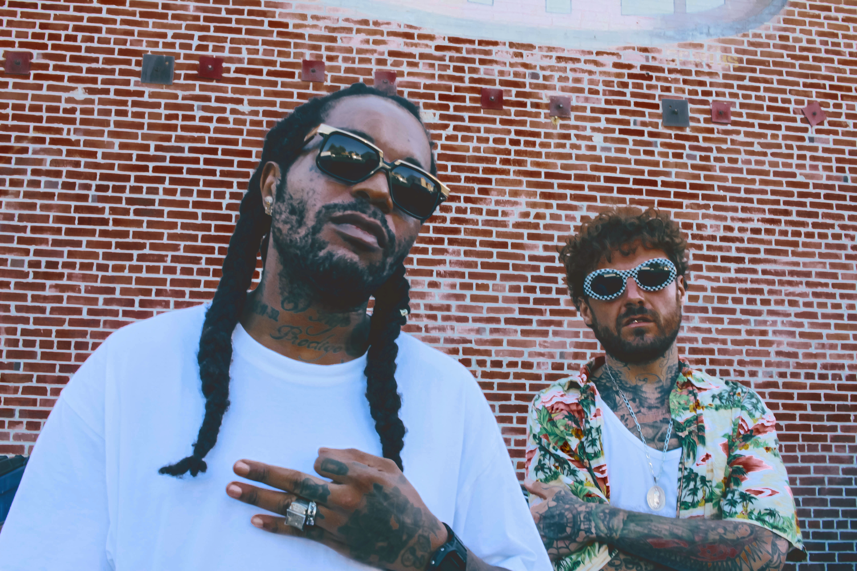 thezombiekids